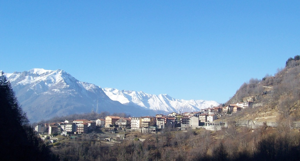 Paspardo, Valle Camonica